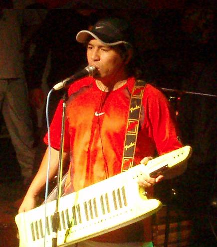 Damas Gratis En un Concierto